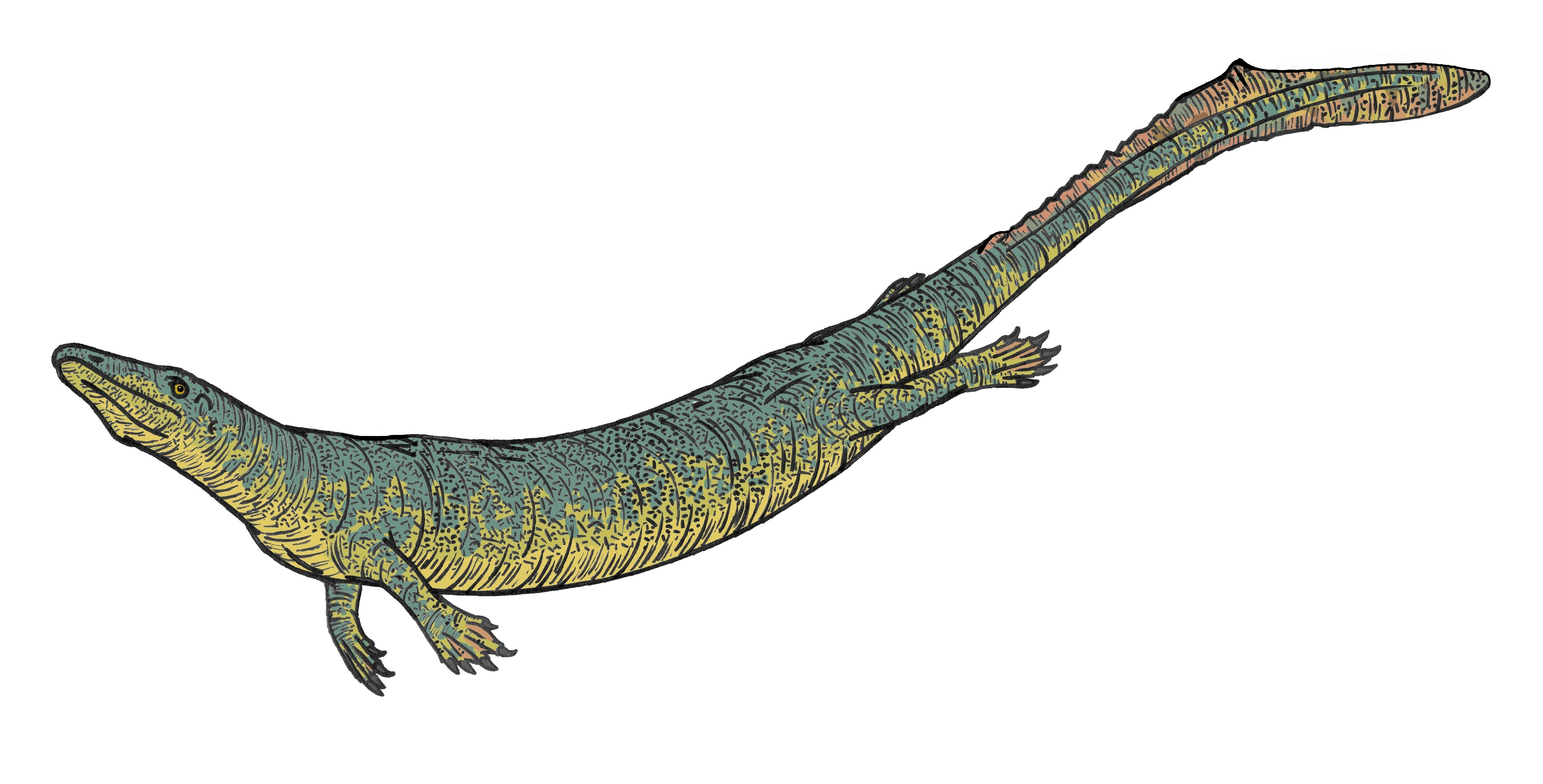 Dallasaurus turneri, a basal Mosasauroid from North America, Late Cretaceous period.